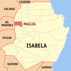 Map of Isabela showing the location of Mallig